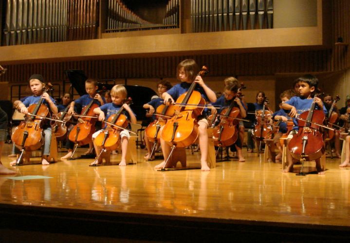 Young Children (Suzuki students) Playing Cello